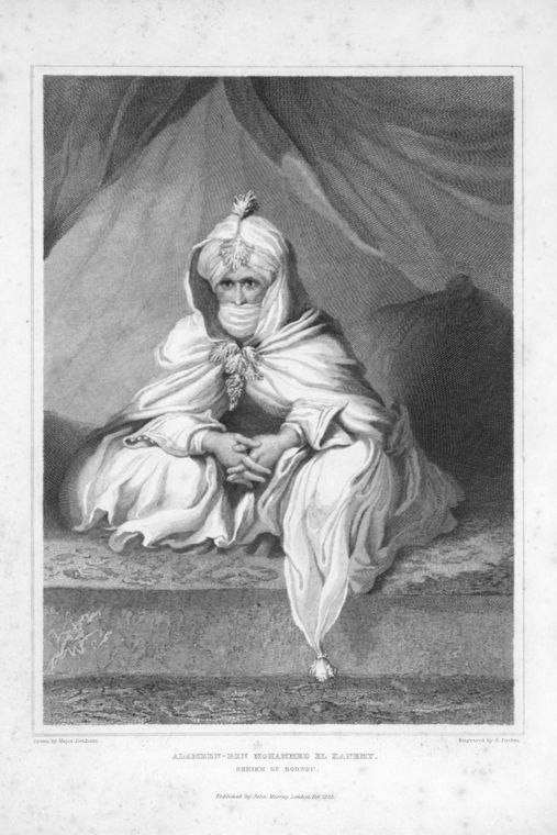 Mohammed el- Amin el-Kanemi al-Haji, Sheikh of Bornu (1779–1835) Image Title Alameen Ben Mohammed. El Kanemy. Creator Finden, Edward Francis, 1791-1857 -- Engraver Additional Name(s) Denham, Dixon, 1786-1828 -- Author Specific Material Type Printed text Item/Page/Plate Frontispiece Source Narrative of travels and discoveries in Northern and Central Africa, in the years 1822, 1823, and 1824. Vol I & II. Location Schomburg Center for Research in Black Culture / Manuscripts, Archives and Rare Books Division Catalog Call Number Sc Rare 916.7-D (Denham, D. Narrative of travels and discoveries in Northern and Central Africa) Digital ID 1245768 Record ID 210231 Digital Item Published 7-18-2005; updated 10-3-2007